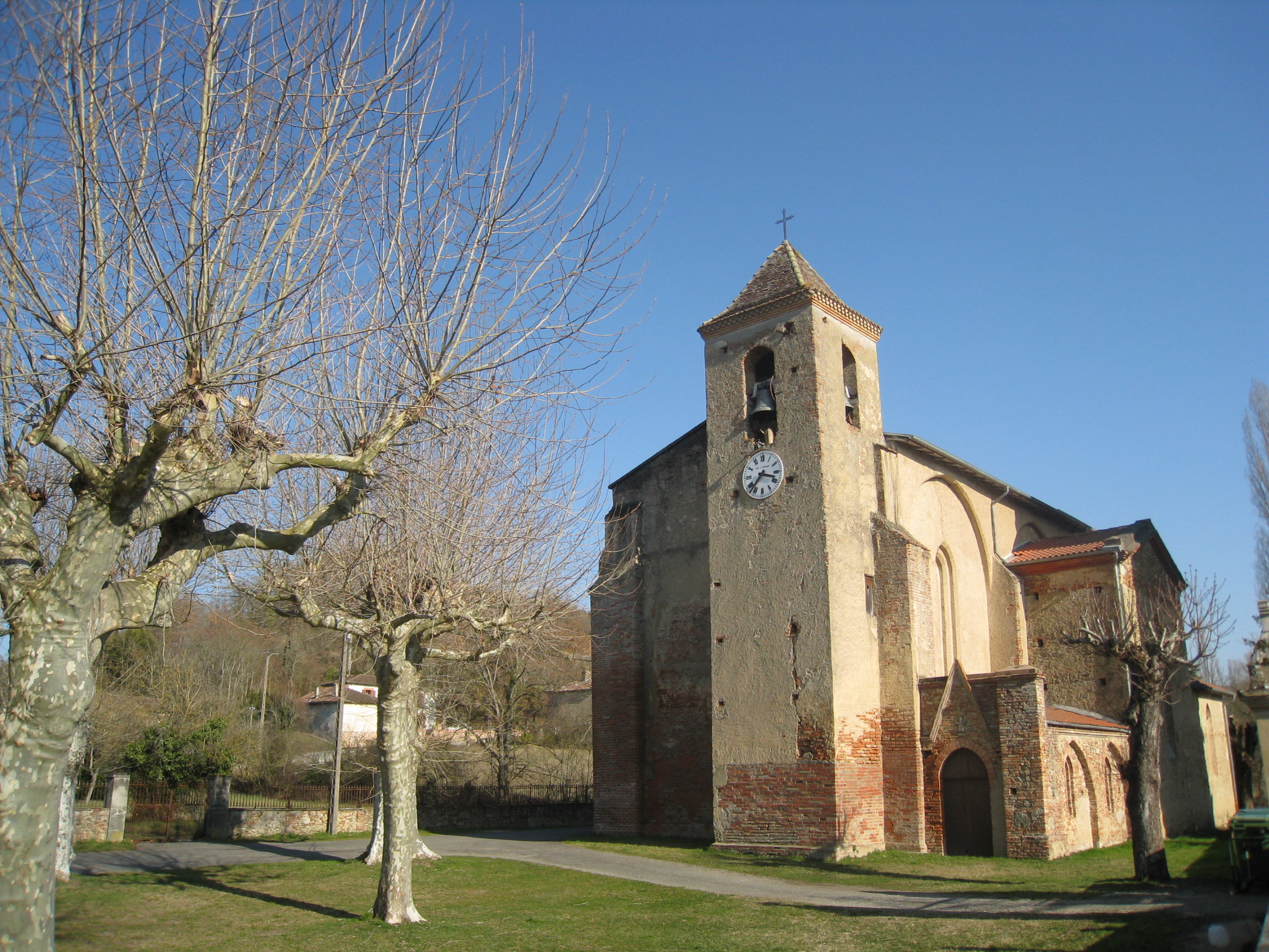 The church of Saint-Laurent sur Save in France